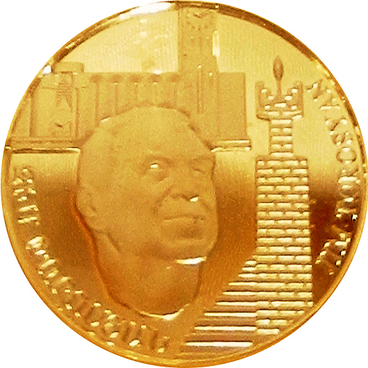 Jim Torosyan Gold medal, A, Armenia